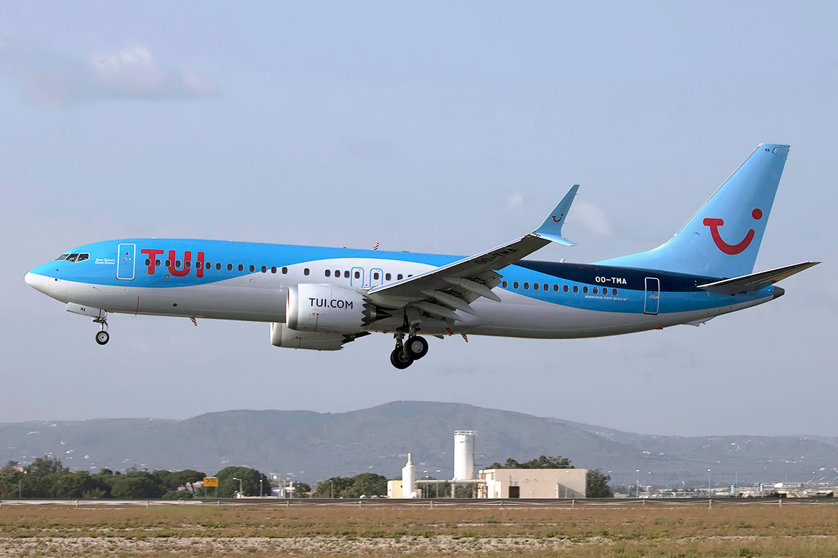 TUI Airlines Belgium Boeing 737 MAX 8